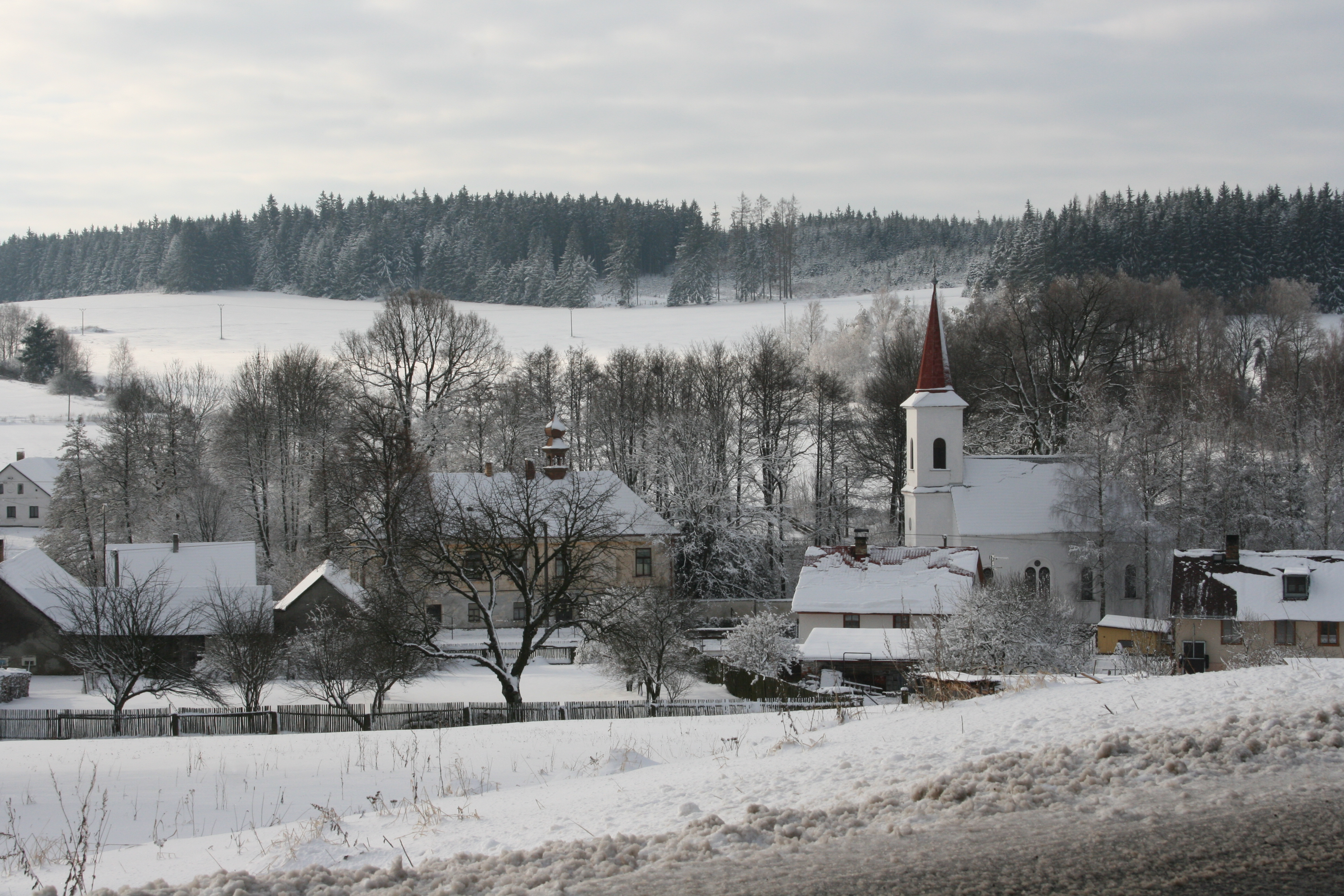 Albeř, part of town Nová Bystřice, Jindřichův Hradec district, Czech Republic.